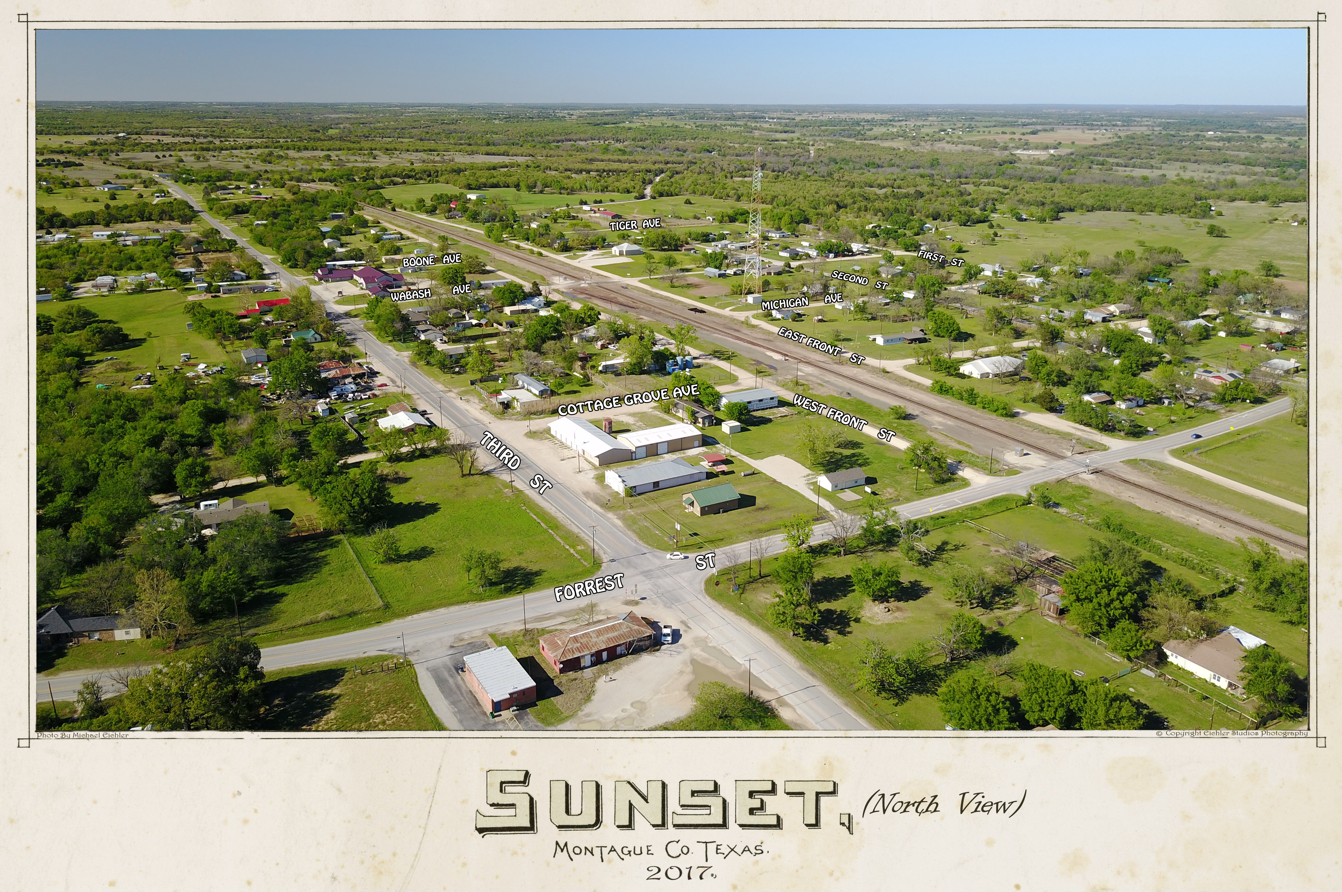 Sunset Texas (North View) aerial Photo. Companion photo to a similar image of the South View